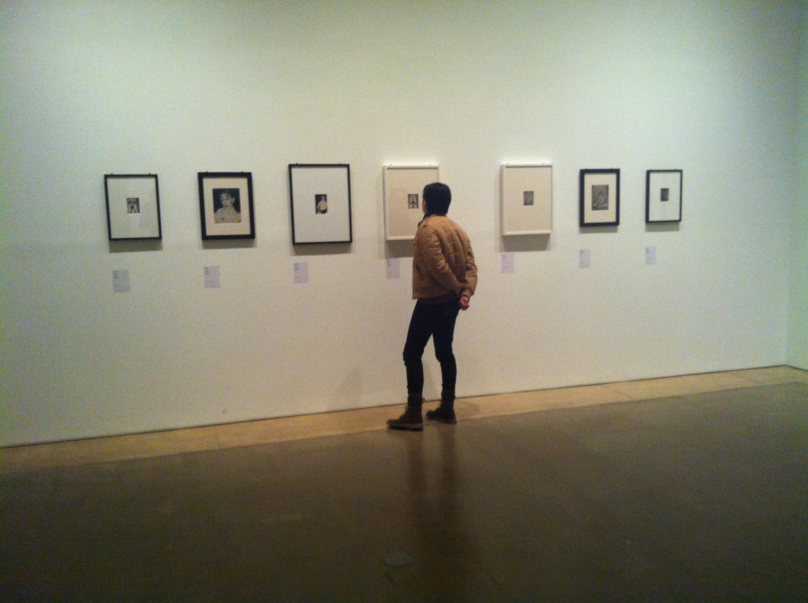 Palau de la Virreina- Claude Cahun Exhibit at Barcelona in 2012